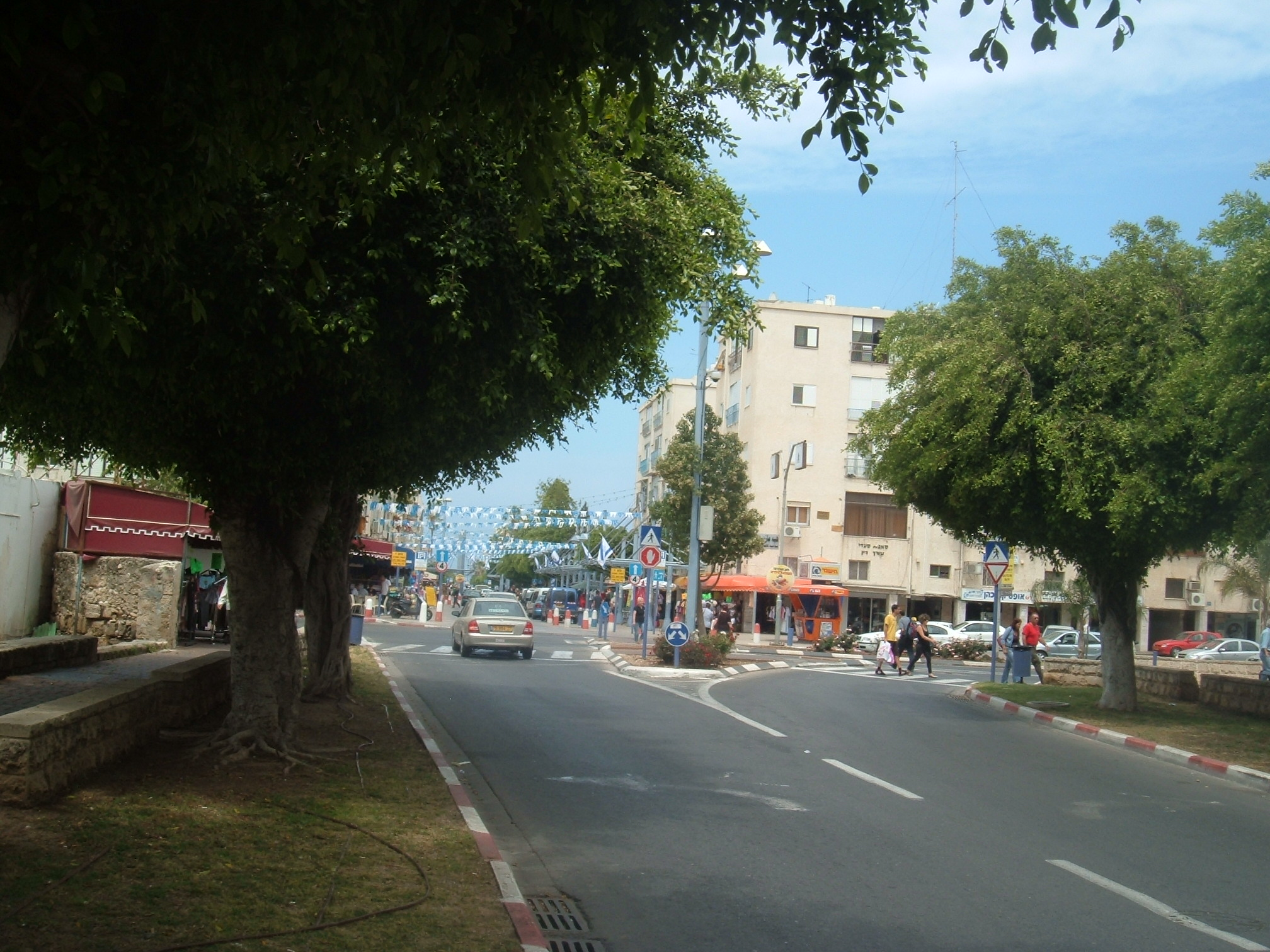 benami st. Acre רחוב בן עמי, עכו